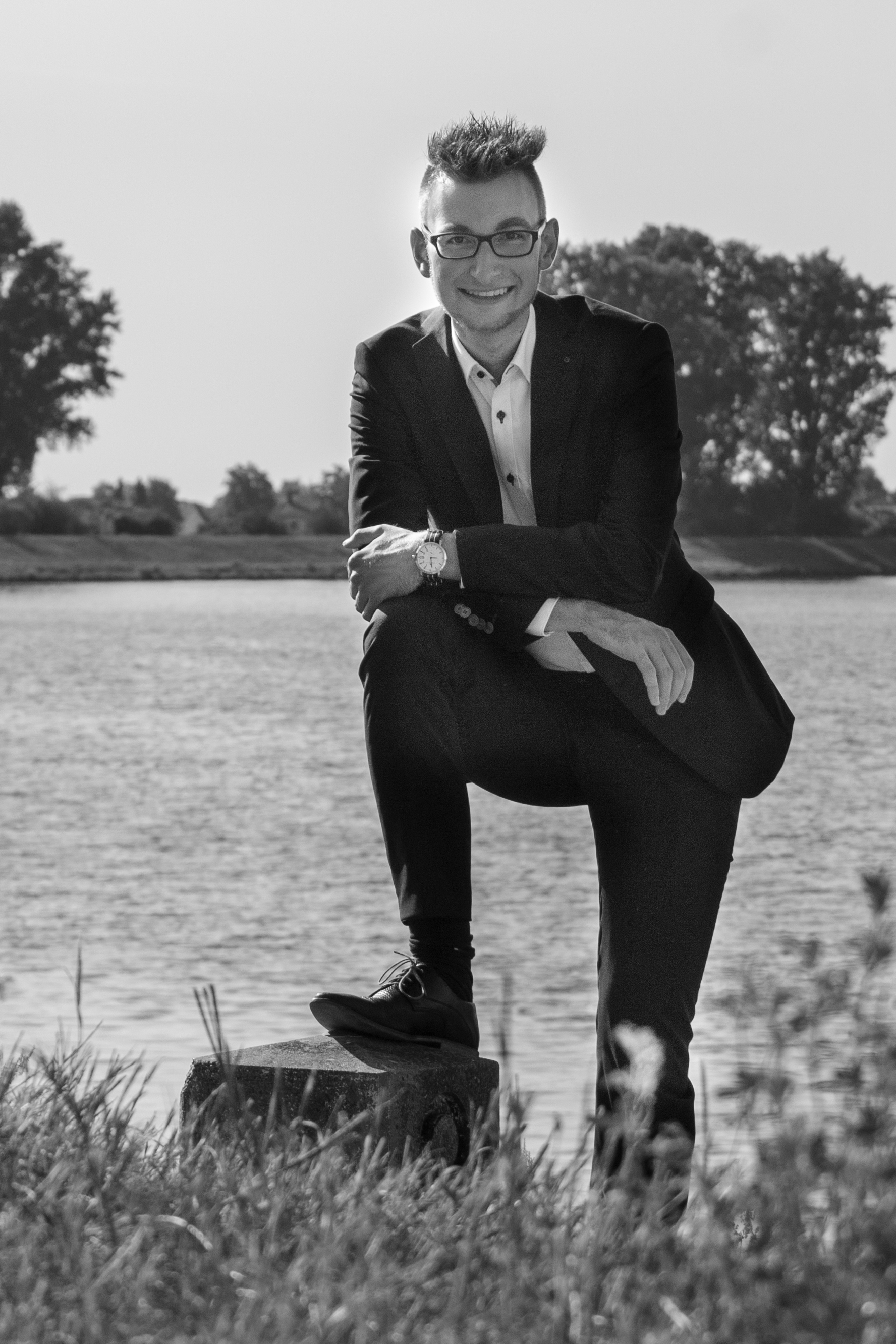 Picture of Max Rädlinger, public figure.